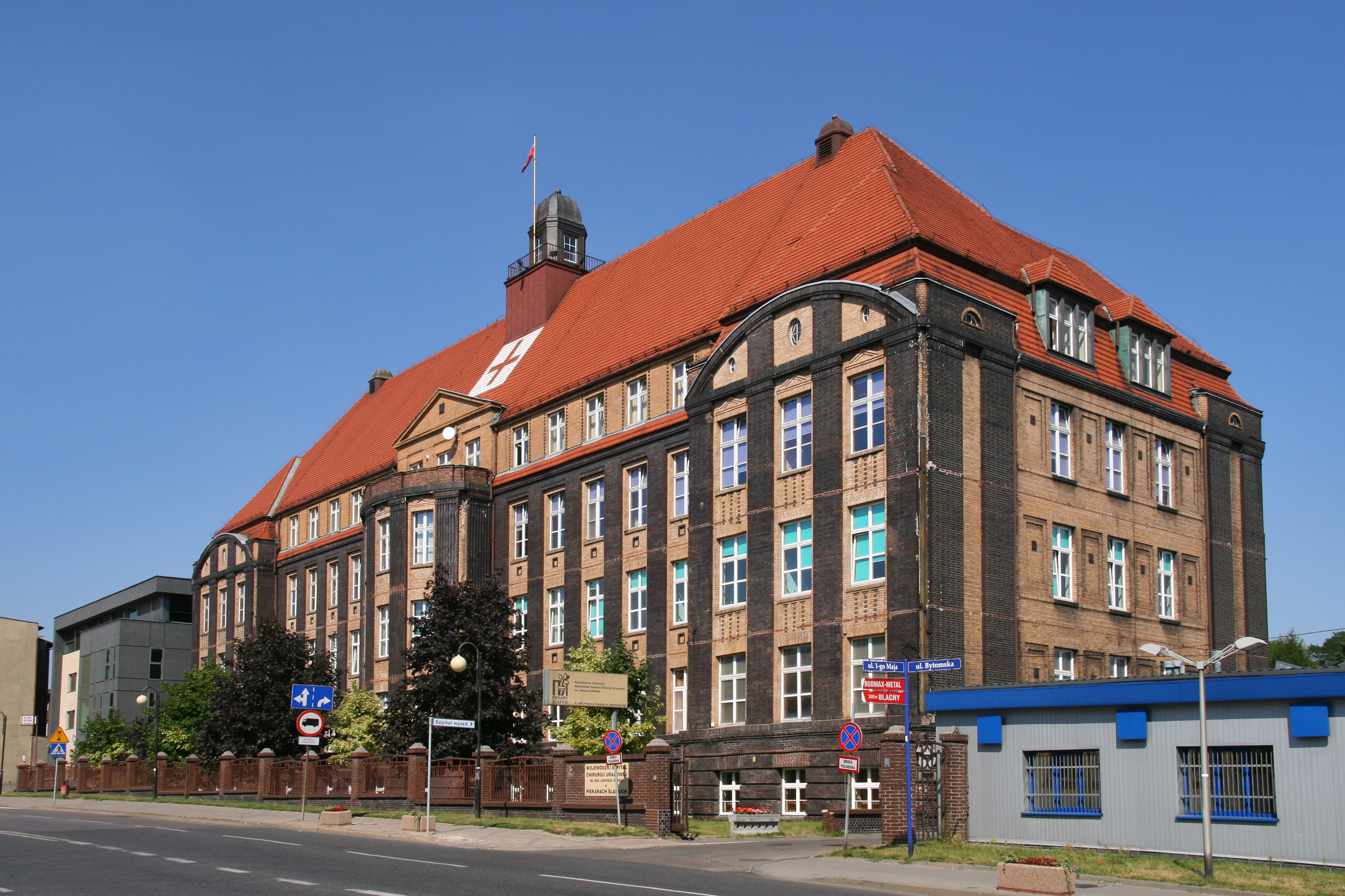 Hospital in Piekary Śląskie (Poland).